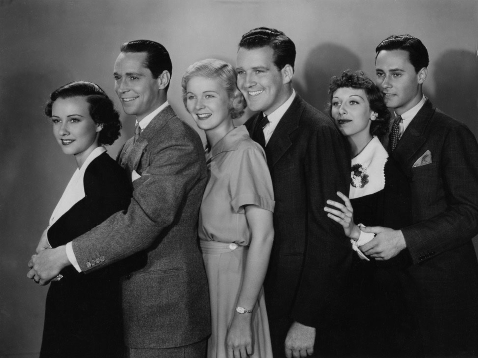 L. to R. : Margaret Lindsay, Franchot Tone, Jean Muir, Dick Foran, Ann Dvorak & Ross Alexander in Gentlemen Are Born (1934) - publicity still